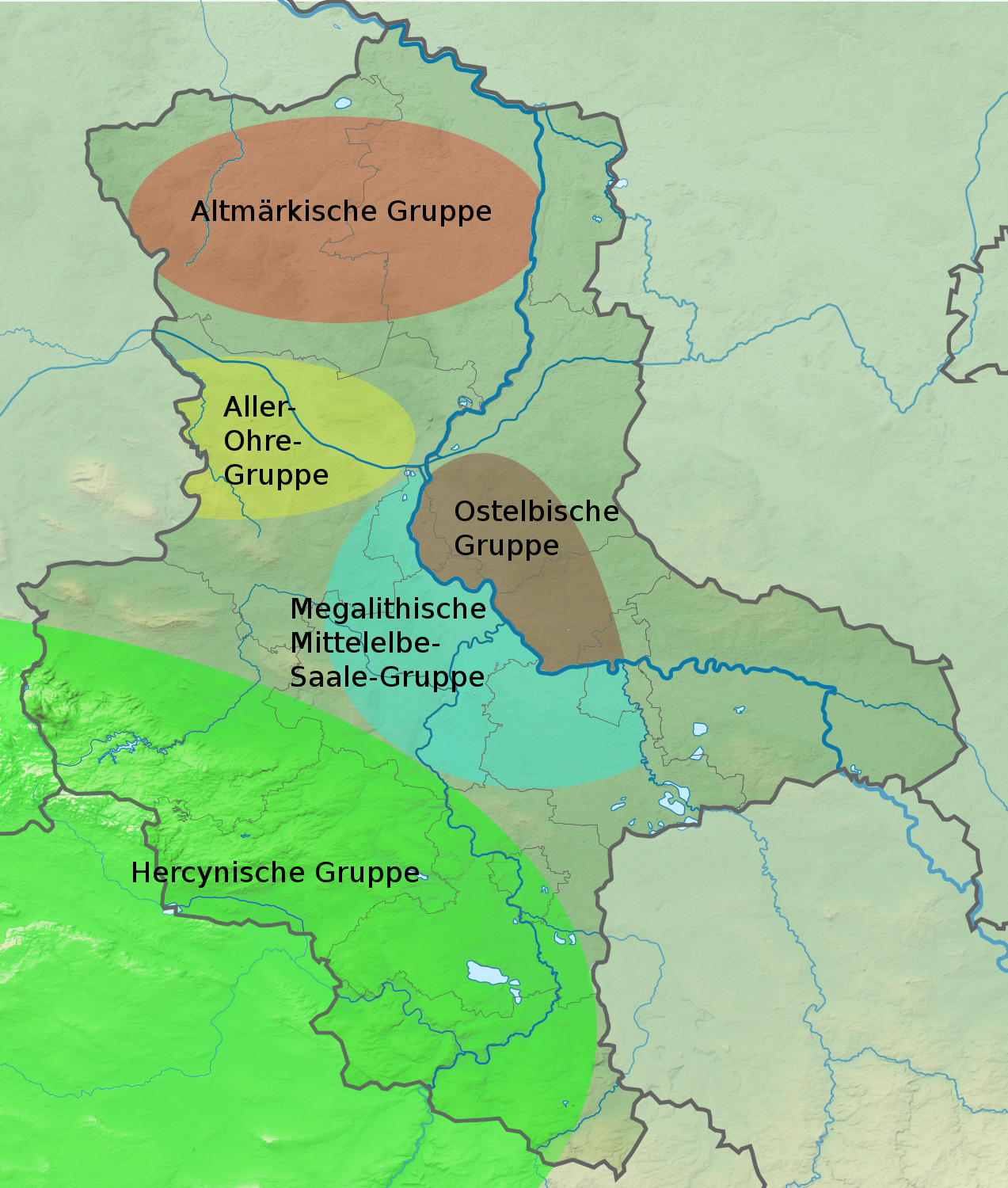 Regional Groups of megalithic buildings in Saxony-Anhalt after Hans-Jürgen Beier: Die megalithischen, submegalithischen und pseudomegalithischen Bauten sowie die Menhire zwischen Ostsee und Thüringer Wald. Beiträge zur Ur- und Frühgeschichte Mitteleuropas 1. Wilkau-Haßlau 1991.